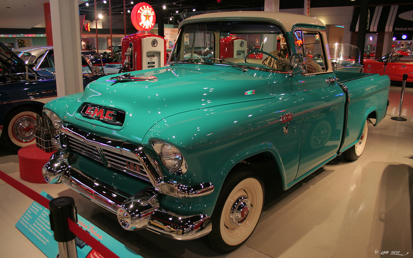 '57 Heaven Museum & Branson/Springfield, MO, March 20, 2008.